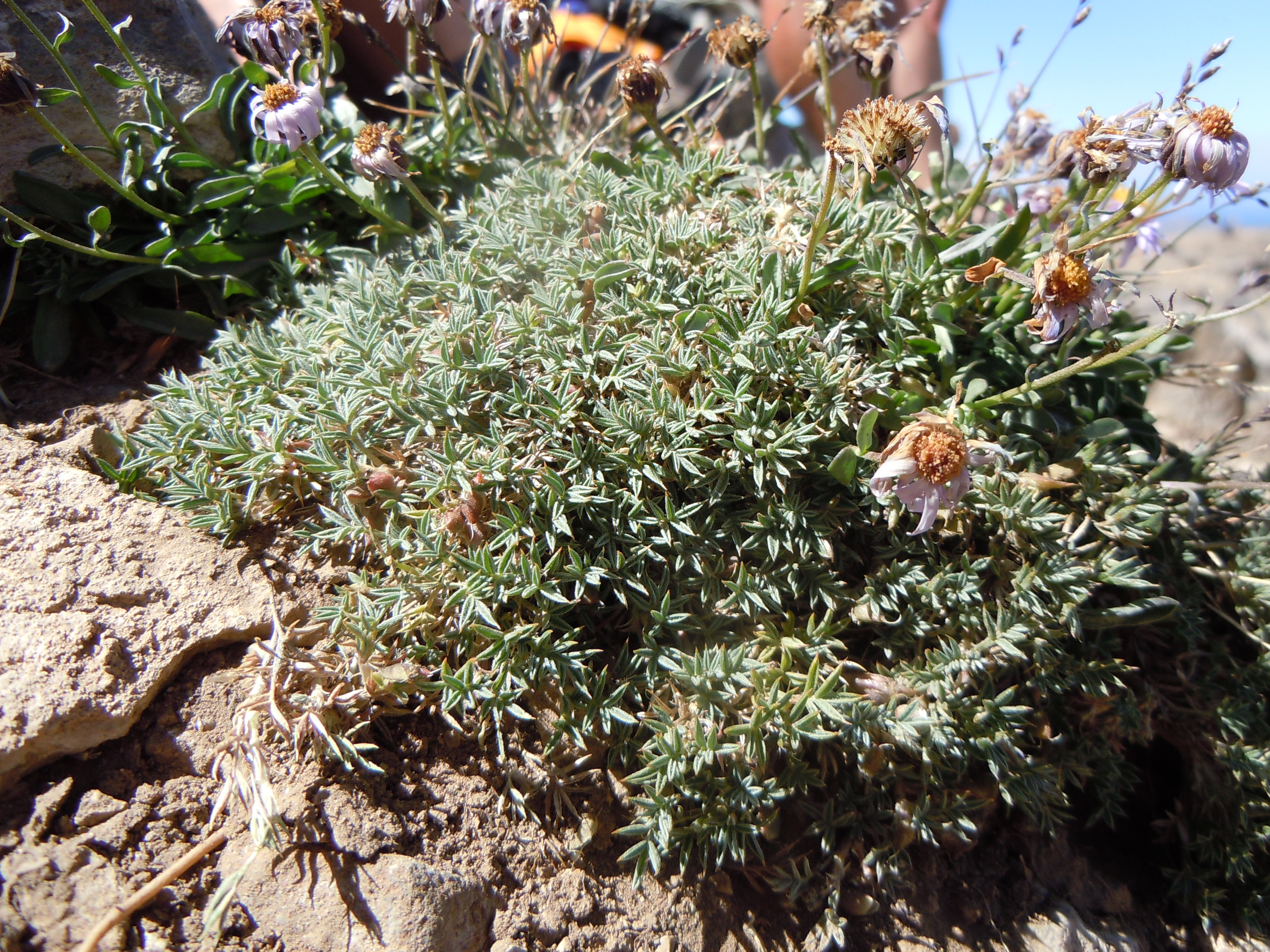 Astragalus kentrophyta growing on top of Table Mountain. The marginal hairs of each leaflet are oriented radially seemingly to act as a moisture trap.